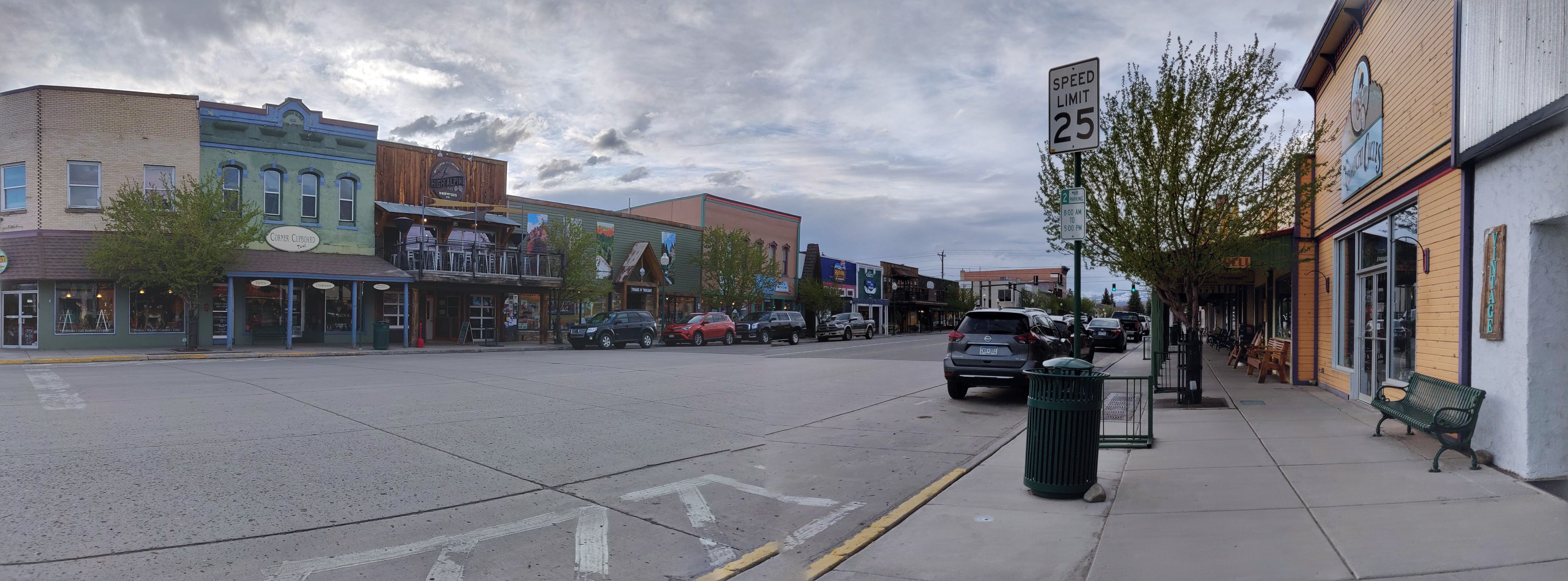 Image of street and storefronts along Main Street, just north of where it meets Tomichi Ave in Gunnison, Colorado.